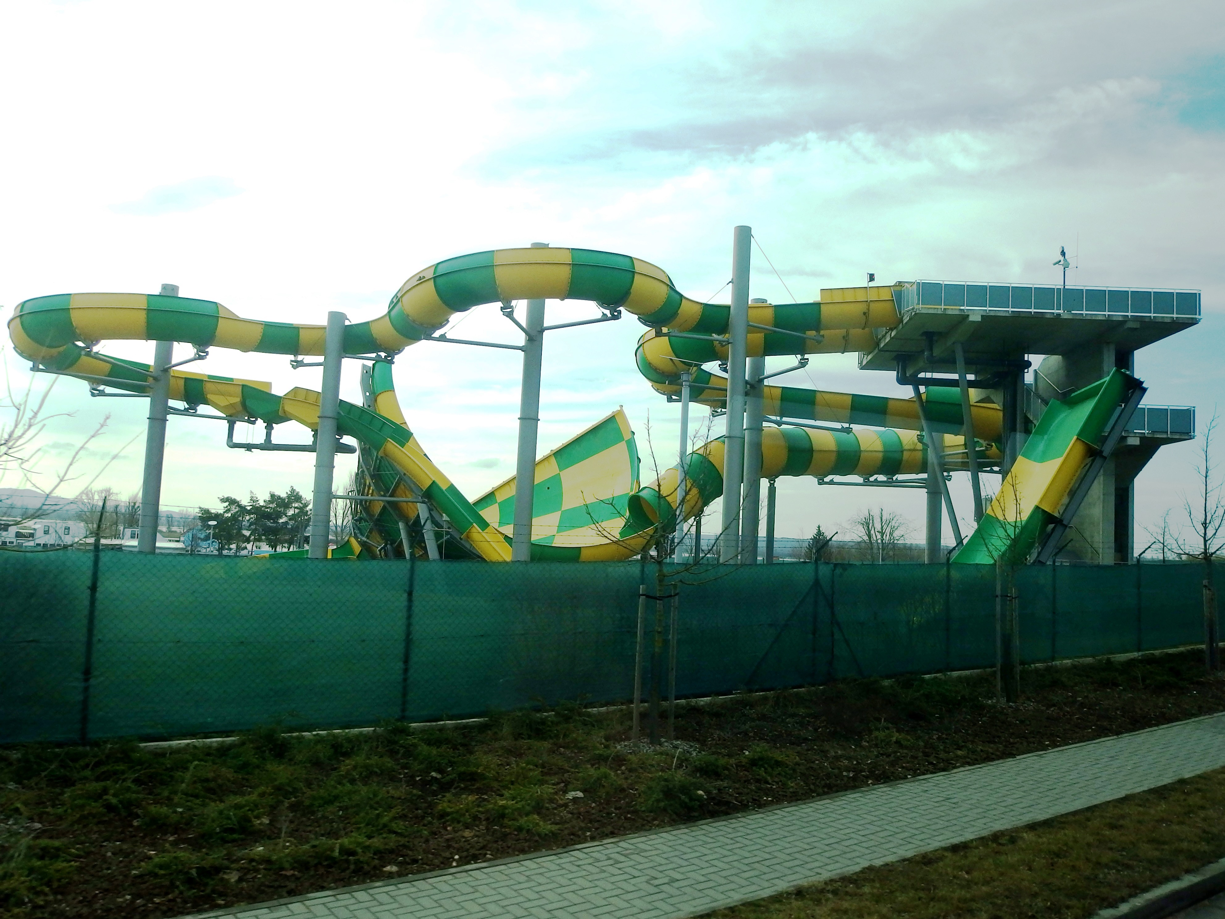 Pasohlávky, Brno-Country District, Czechia.